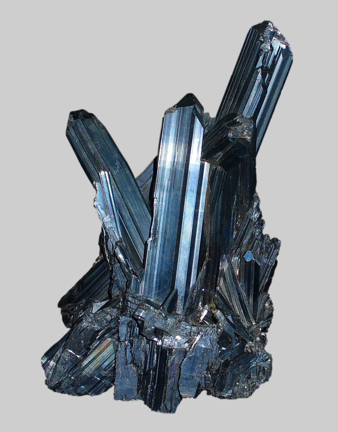 Stibnite, Antimonite, Antimony sulfide, Sb2S3; Staatliches Museum für Naturkunde Karlsruhe, Germany. Used in homeopathy as remedy: Antimonium crudum / Stibium sulfuratum nigrum (Ant-c.)